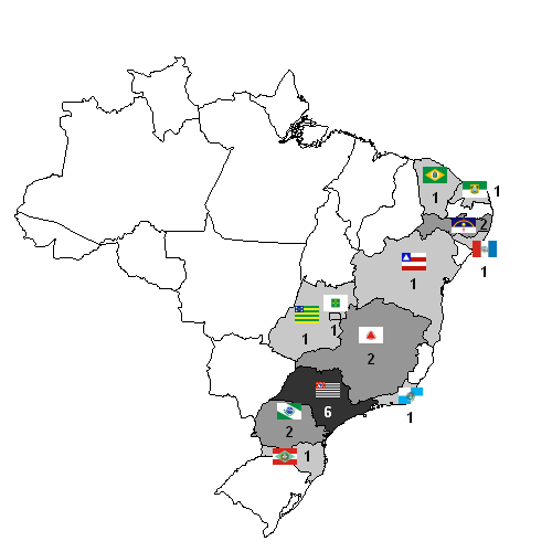 2010 serie B map